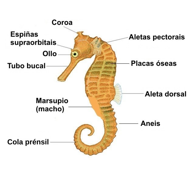 Anatomy of seahorse in Galician